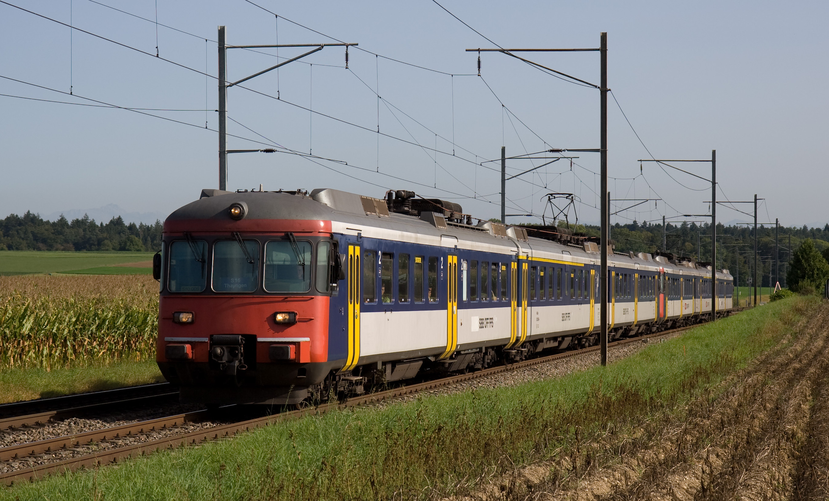 Two RABDe 12/12 "Mirage" between Andelfingen and Marthalen